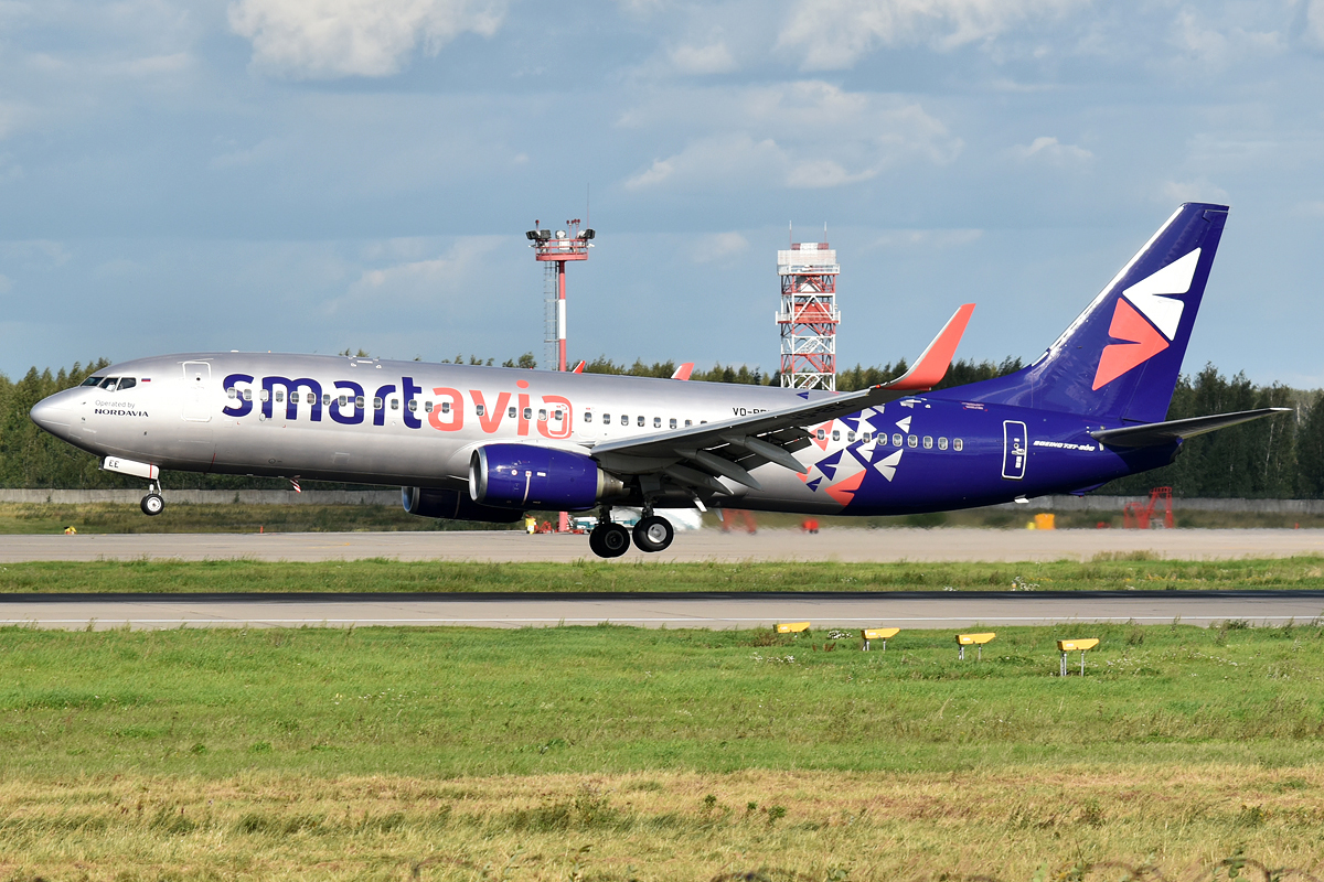 Smartavia, VQ-BEE, Boeing 737-8Q8